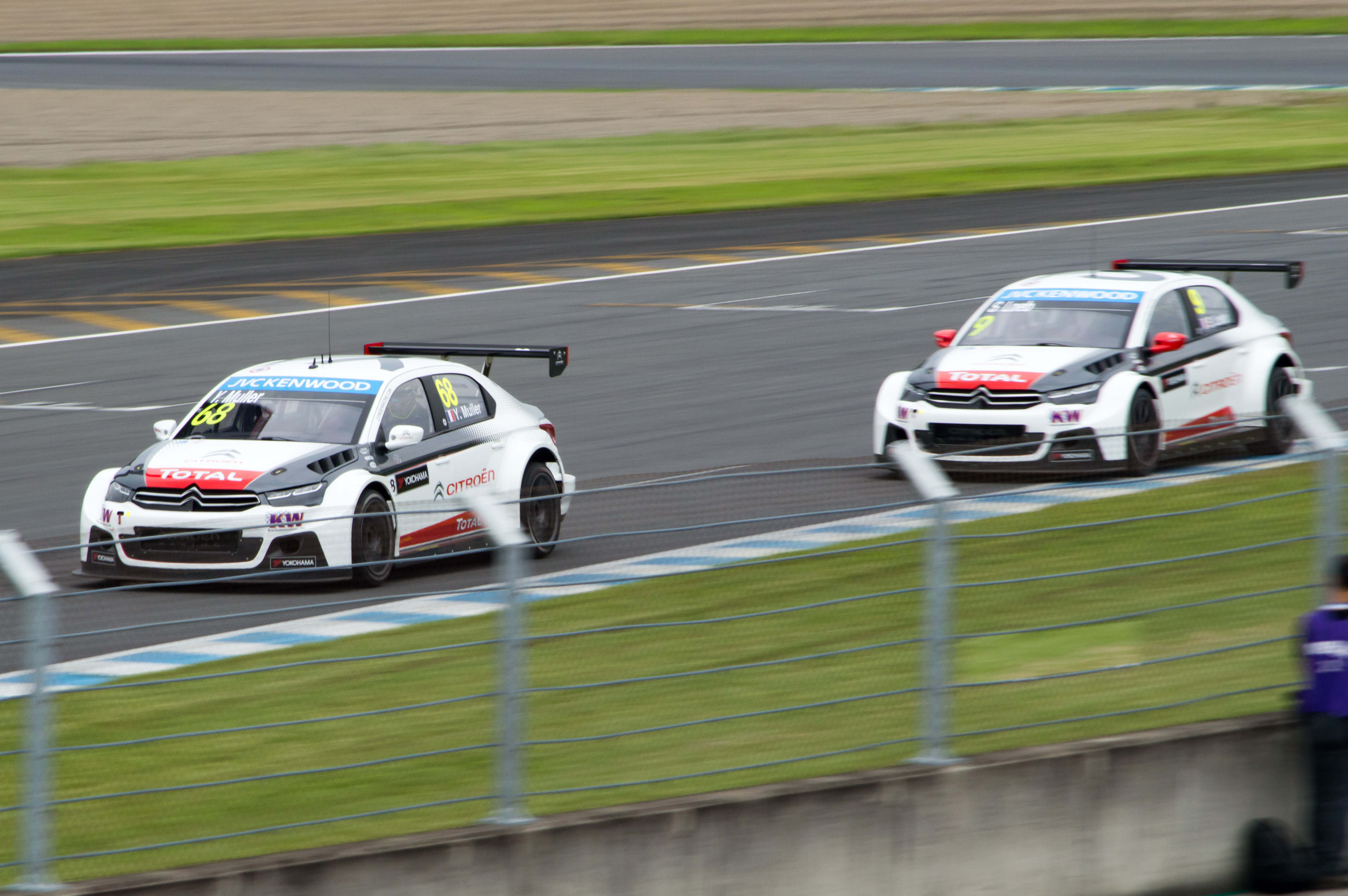 Yvan Muller and Sébastien Loeb during WTCC Race of Japan 2015.